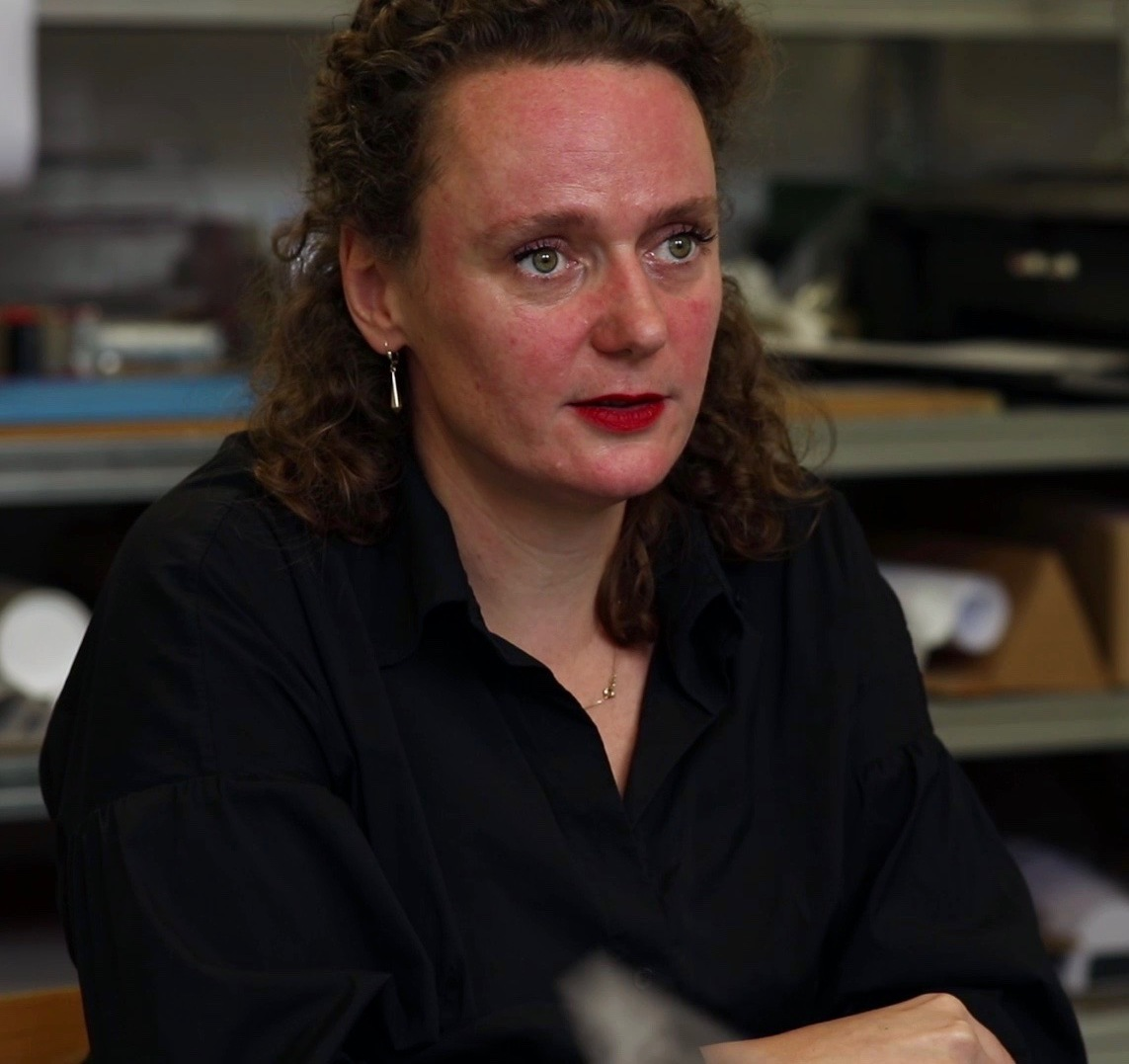 Hansje van Halem, Dutch graphic and type designer. Still from video interview with Hansje van Halem at